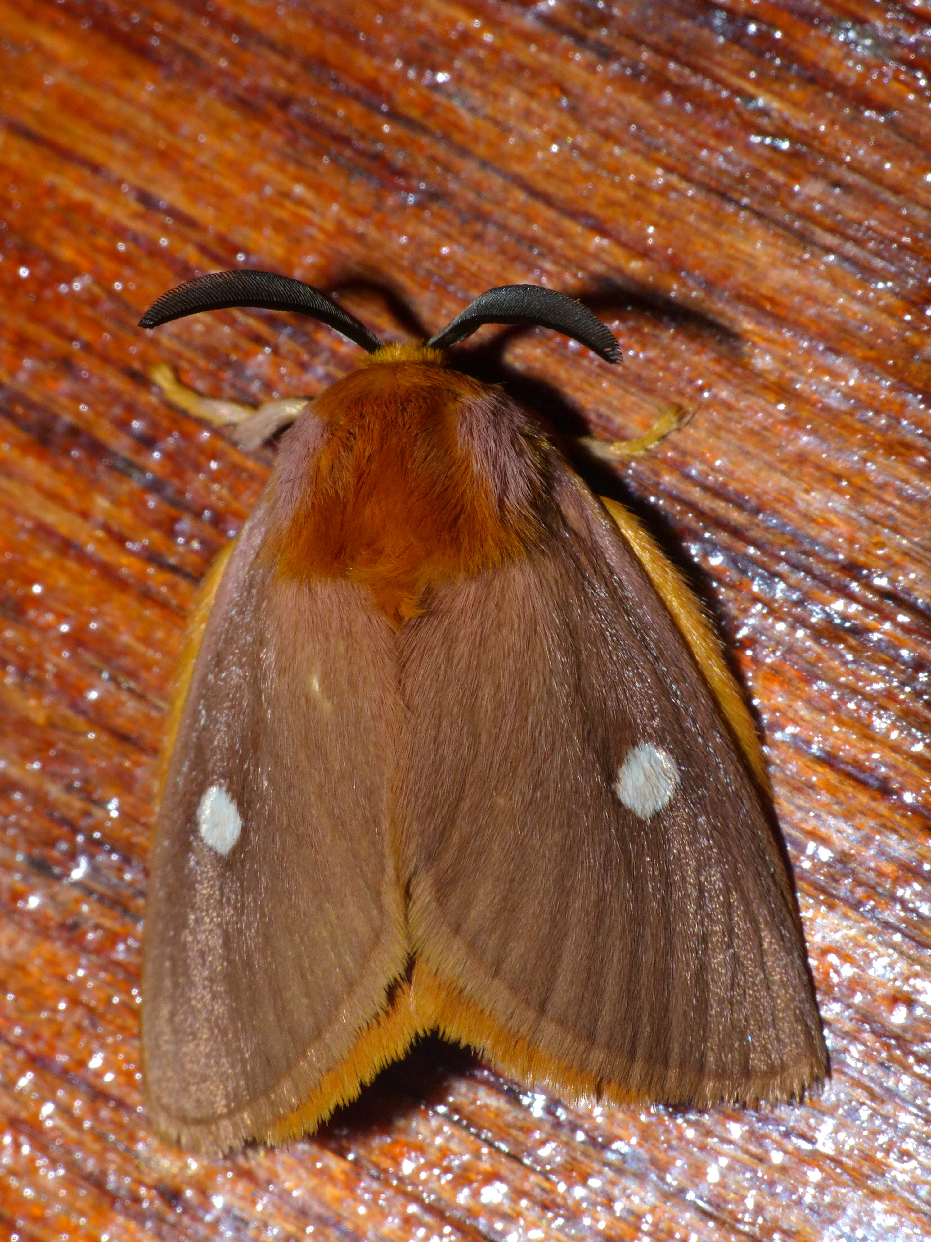 Tamboti Tented Camp, Kruger NP, SOUTH AFRICA